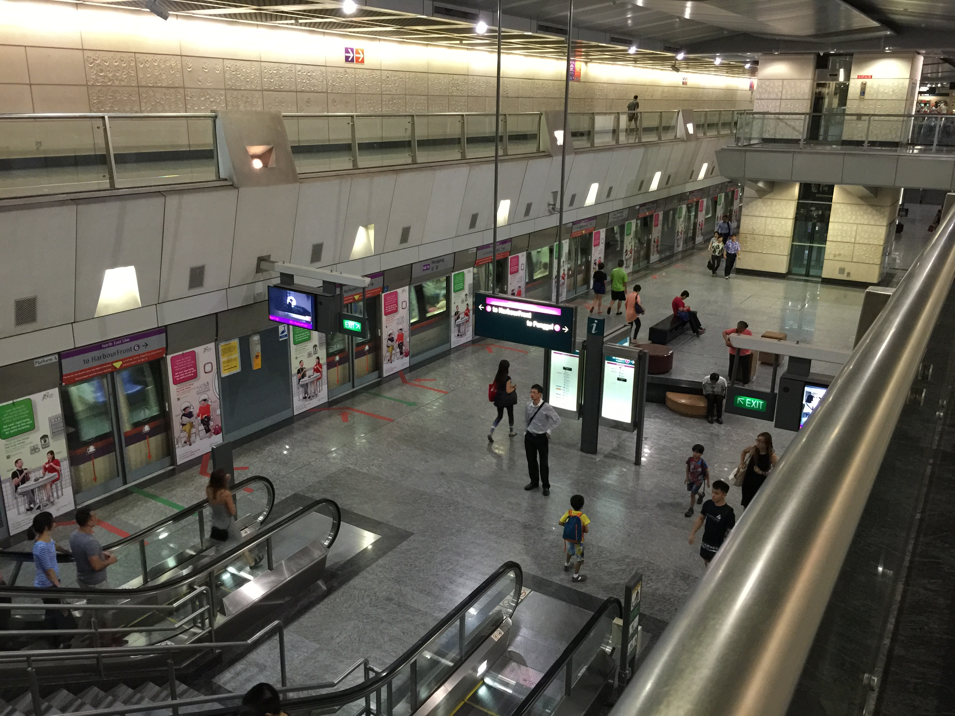 Hougang MRT Station - Platform Level on the North East Line.